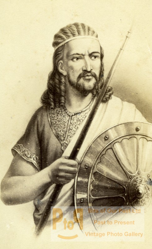 Emperor Theodore of Ethiopia. The backside of this drawing say "E. Neurdein. 28 Boul:d de Sebastopol, Paris." According to The National Portrait Gallery this drawing is from the 1860s. The brothers Etienne and Louis-Antonin Neurdein operated a photo studio in Paris from the 1860s where they advertised reproductions of famous personalitites. The brothers also published books with their own photographs, particularly of castles, churches and famous buildings around France.